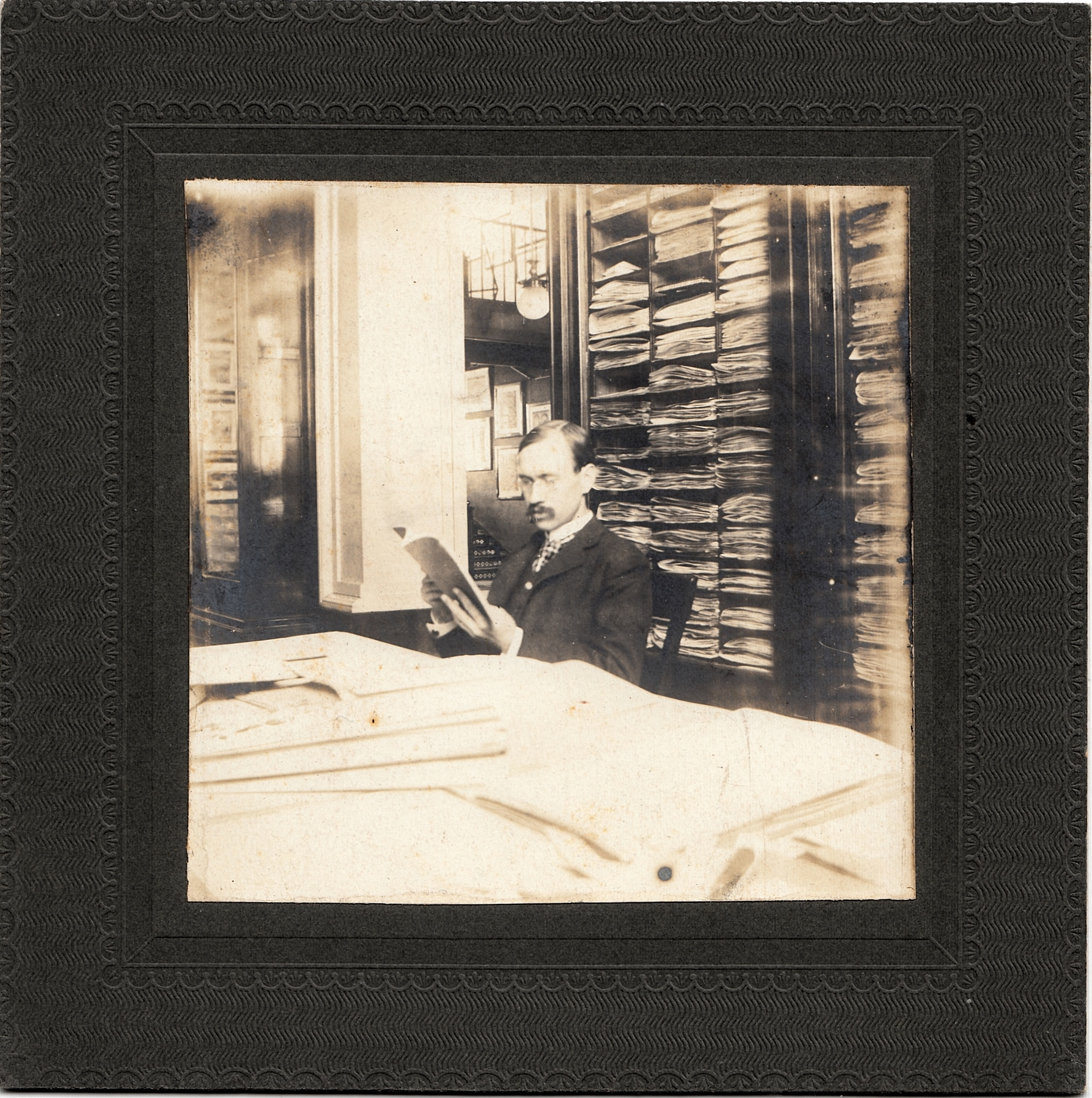 3.25 inch x 3.25 inch mounted albumen photograph of Dr. A. J. Grout in herbarium circa 1900